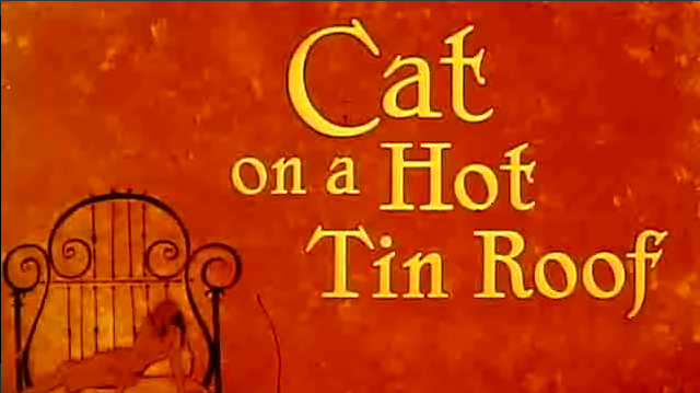 Screenshot from the trailer for the film Cat on a Hot Tin Roof (film)